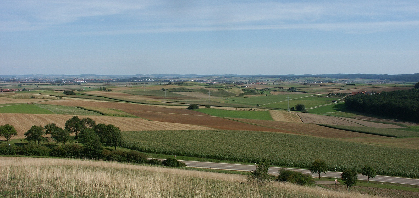 Nördlinger Ries, Germany. View to the east from the Blasenberg (or Blasienberg) near Kirchheim am Ries. In the far left background the city Nördlingen.